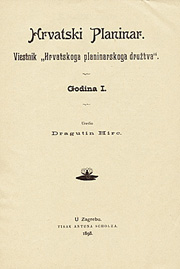 First issue of the journal "Hrvatski planinar" ("Croatian Mountainer") 1898